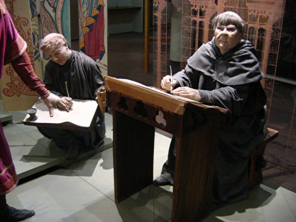 Museum of Bayeux, monks / Personal Picture taken bu user Urban, February 2005